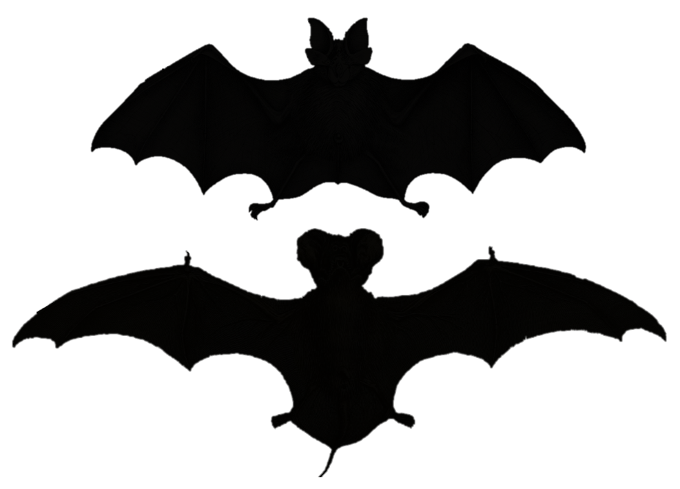 Outline of Pearson's horseshoe bat (top) compared to the European free-tailed bat, demonstrating differences in wing morphology